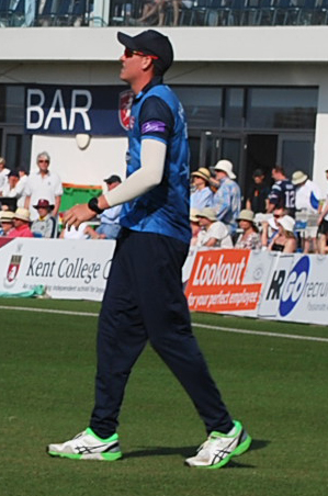 Kent cricketer Matt Renshaw fielding at Beckenham in April 2019 in a One Day Cup match against Sussex.